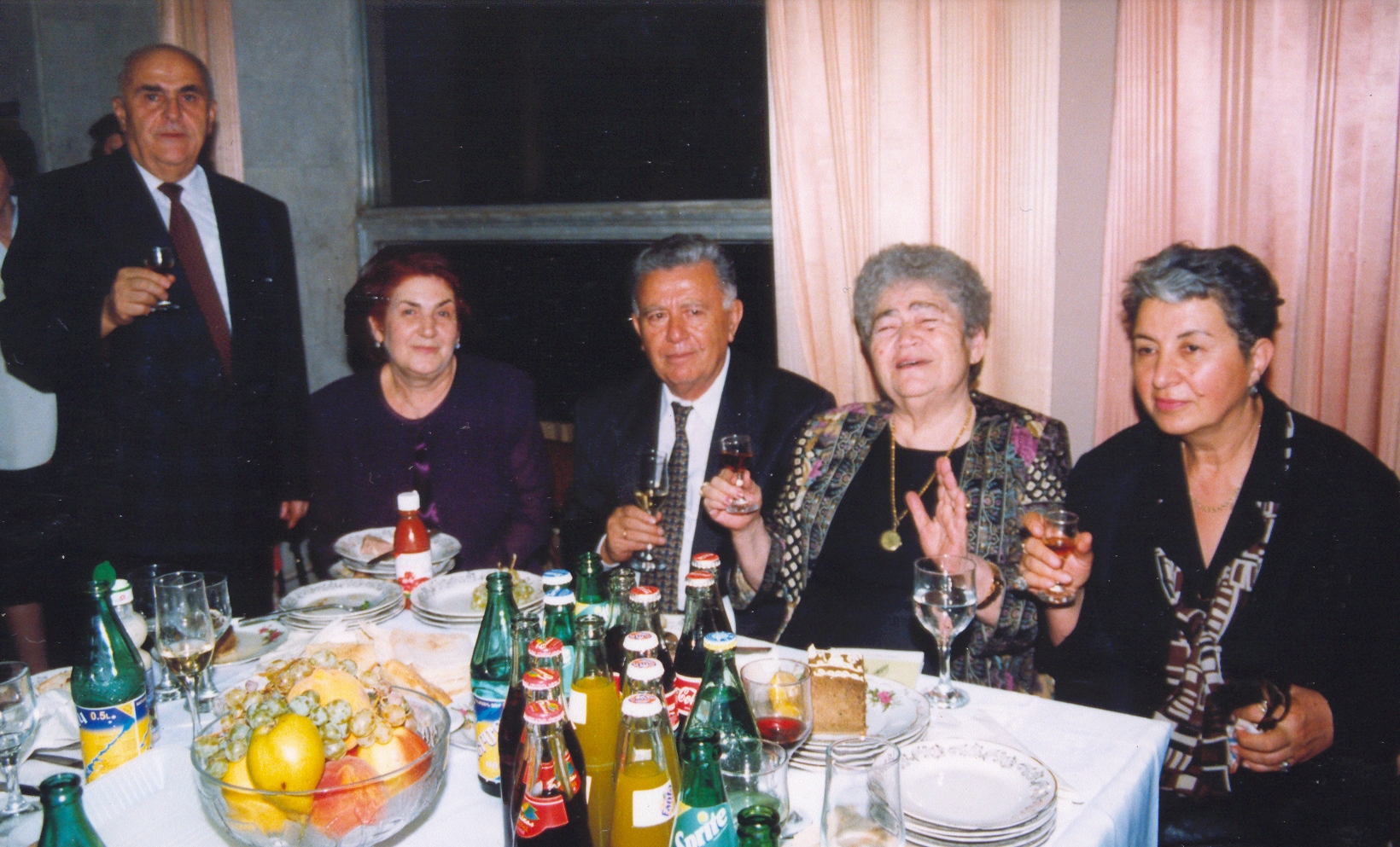 Edvard Chubaryan 75th Birthday, 05 May 2011 05, No. 48